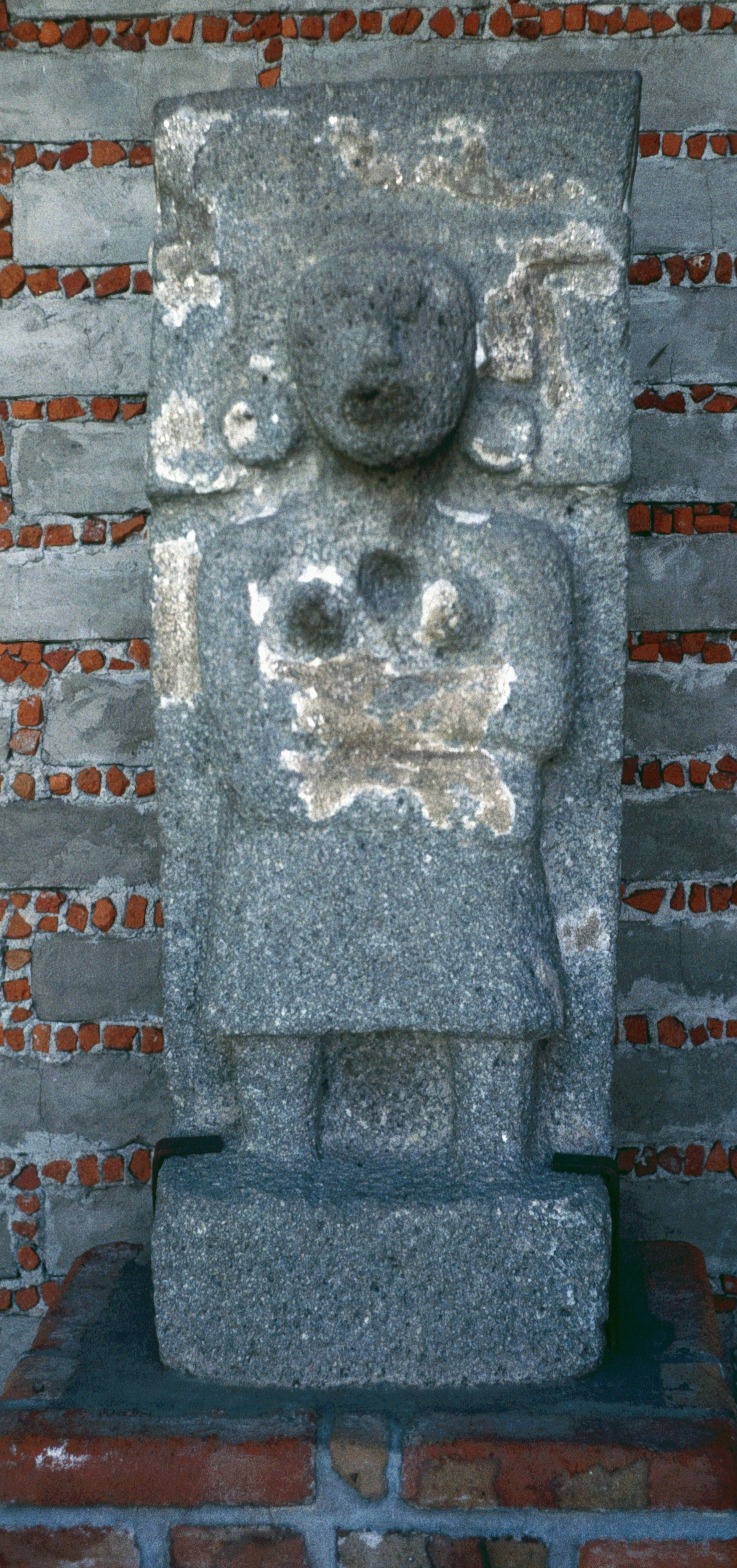 Coatetelco, Morelos, Mexico, female figure